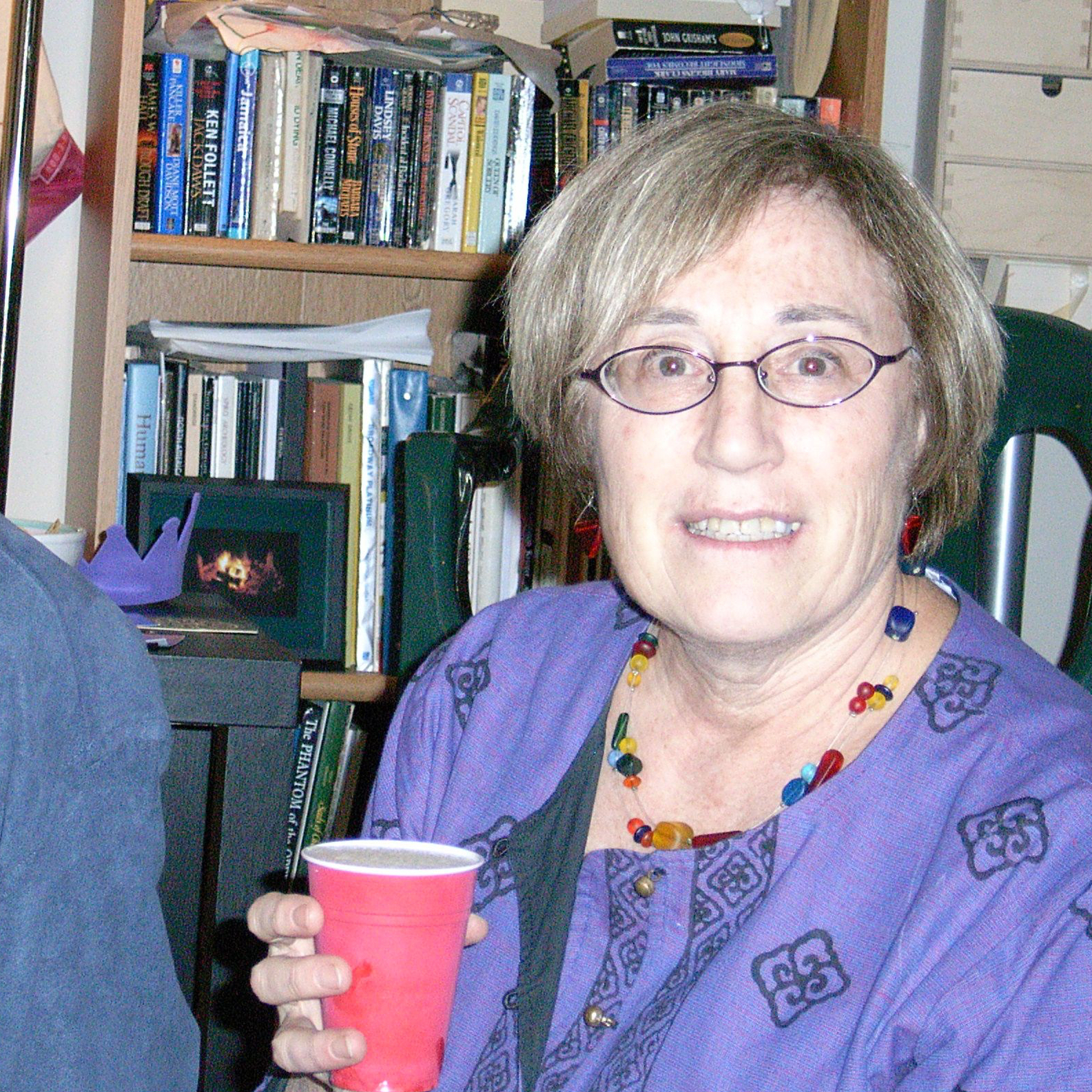 Martin Wobst and Joan Gero at a party hosted by Dorothy Lippert, 2005